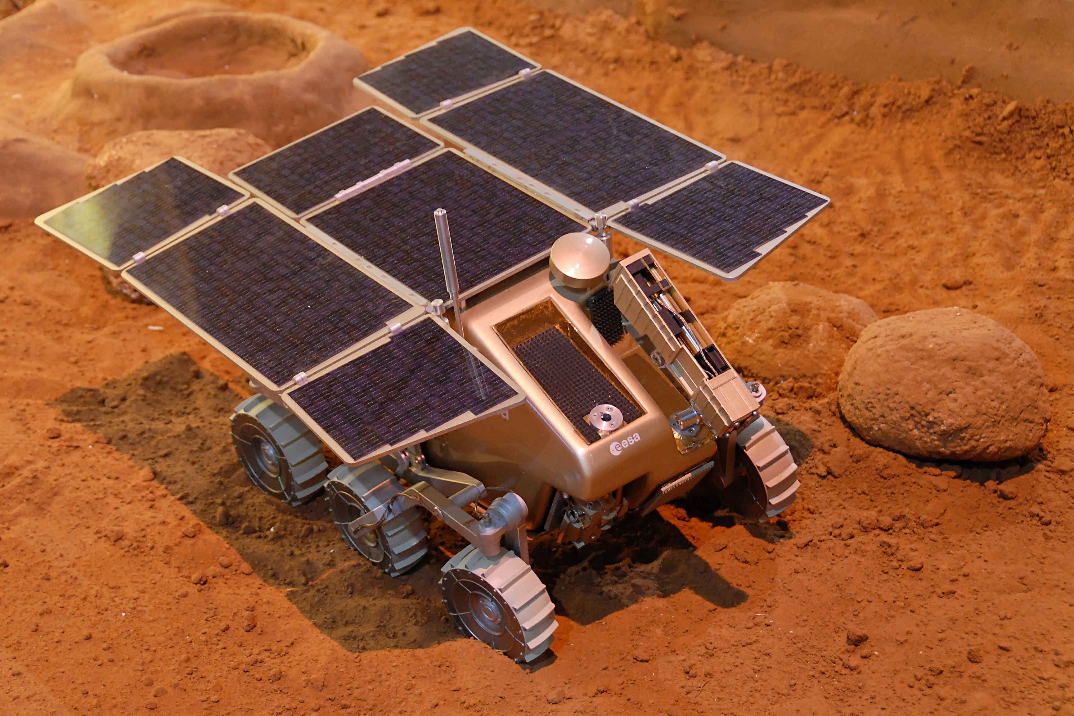 A 1:4 model of the ExoMars rover at the ESA pavilion, 2007 International Paris Air Show at the Le Bourget airport.